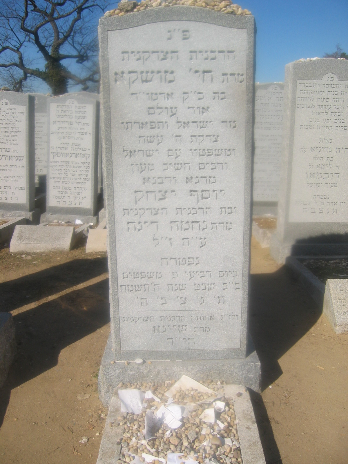 The grave of the Rebbetzin Chaya Mushka Schneerson, in the Old Montefiore Cemetery. I took this picture.